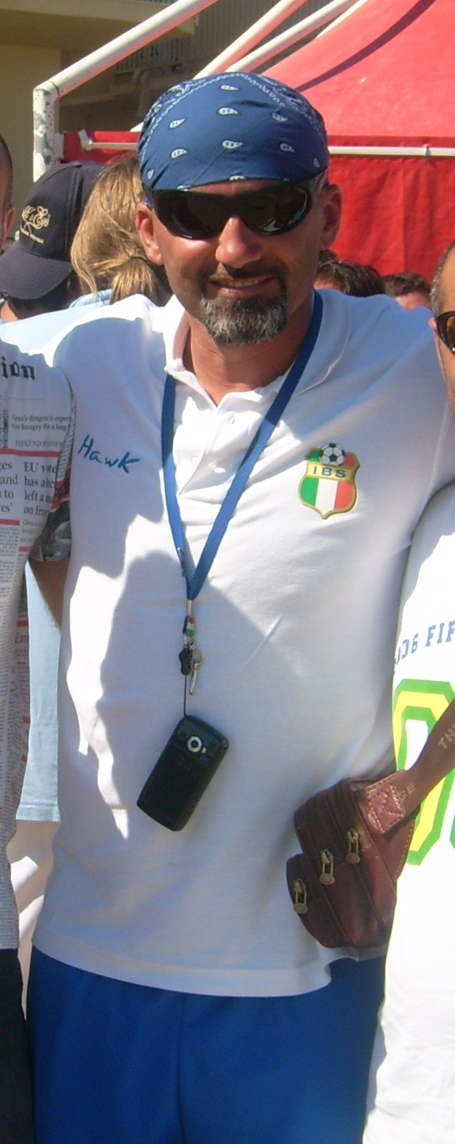 Enrico Annoni before Beach Soccer's match at Sciacca (Ag) Sicily